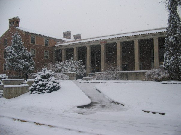 snowy cheyenne arapaho hall